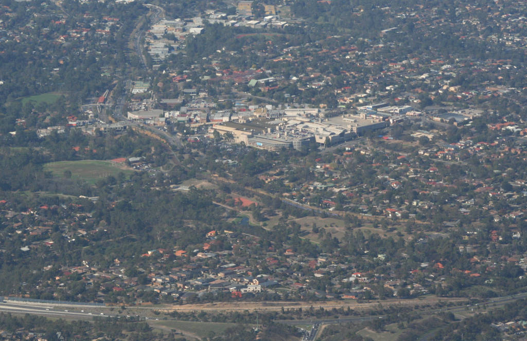 Overview of Greensborough, Victoria from the north, Greensborough Bypass just in foreground and to right, Greensborough Plaza in centre of image, Greensborough railway station, Melbourne to left.